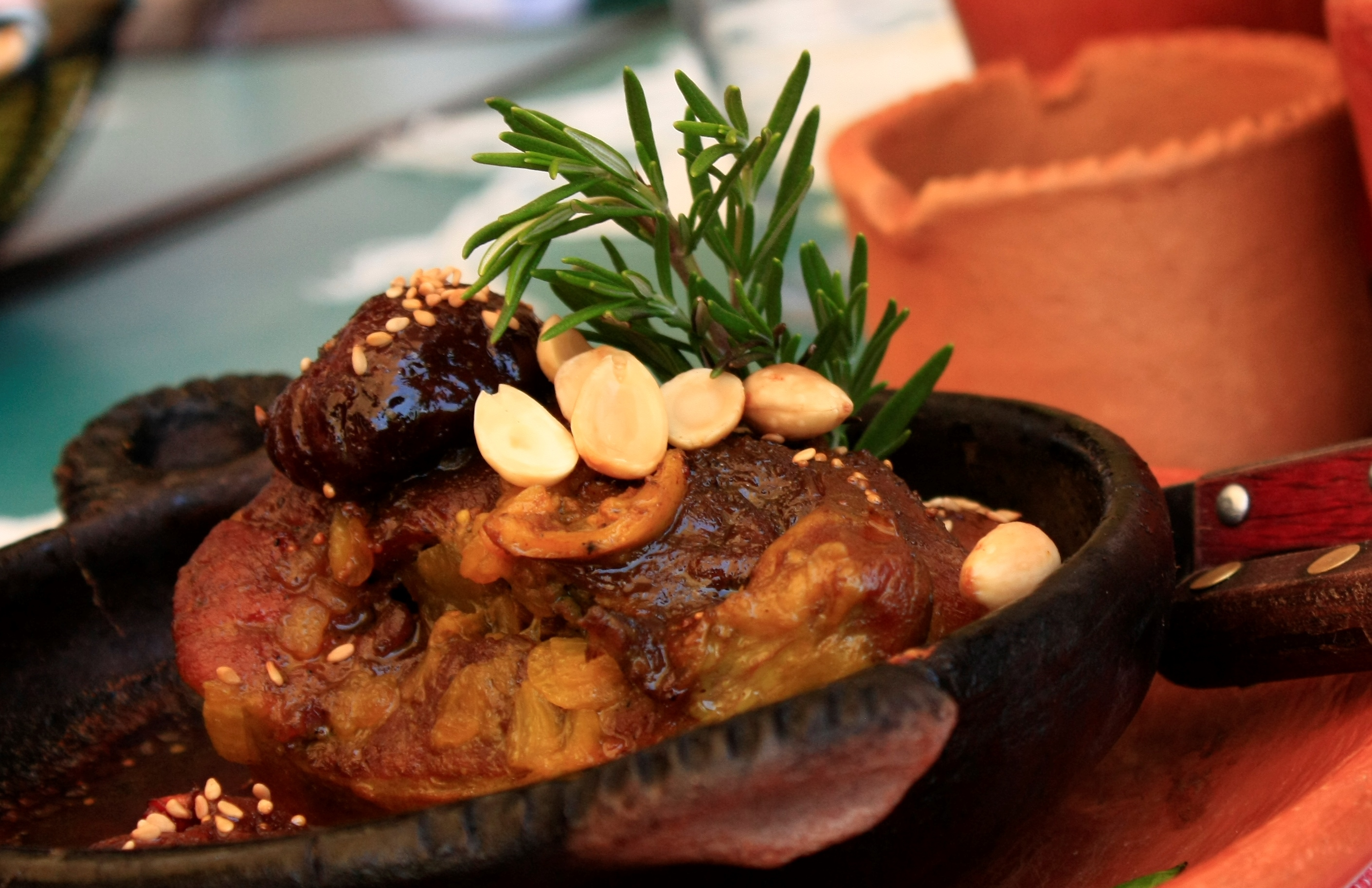 This is a classic and delicious Moroccan dish, called a Tajine, made out of goat meat and quinces. The sweet-salty mix, along with the herbs and local spices give this dish its delicious personality. This is an image of food from Morocco